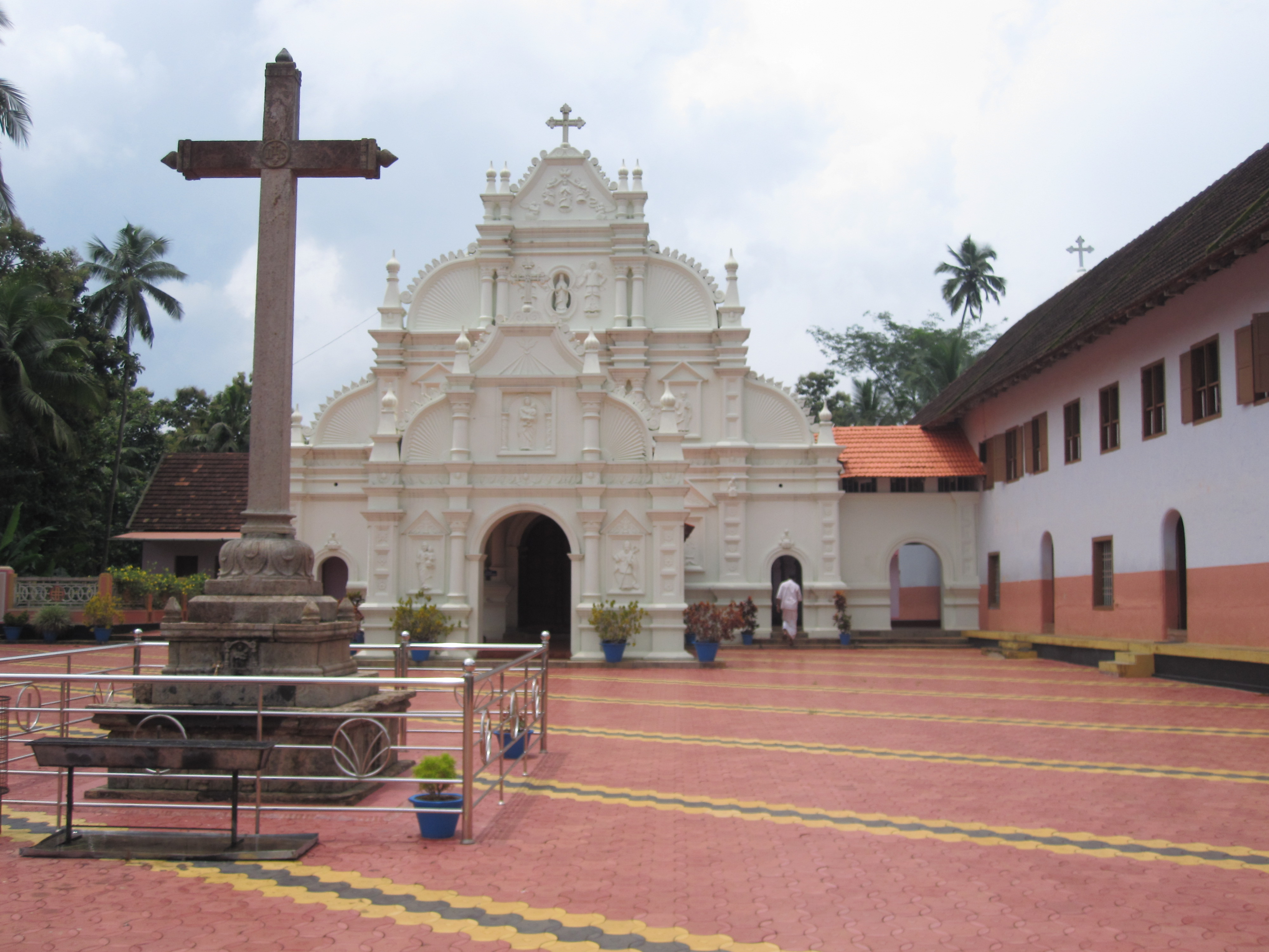 Marth Mariam Syro-Malabar Catholic Church at Arakuzha near Muvattupuzha.